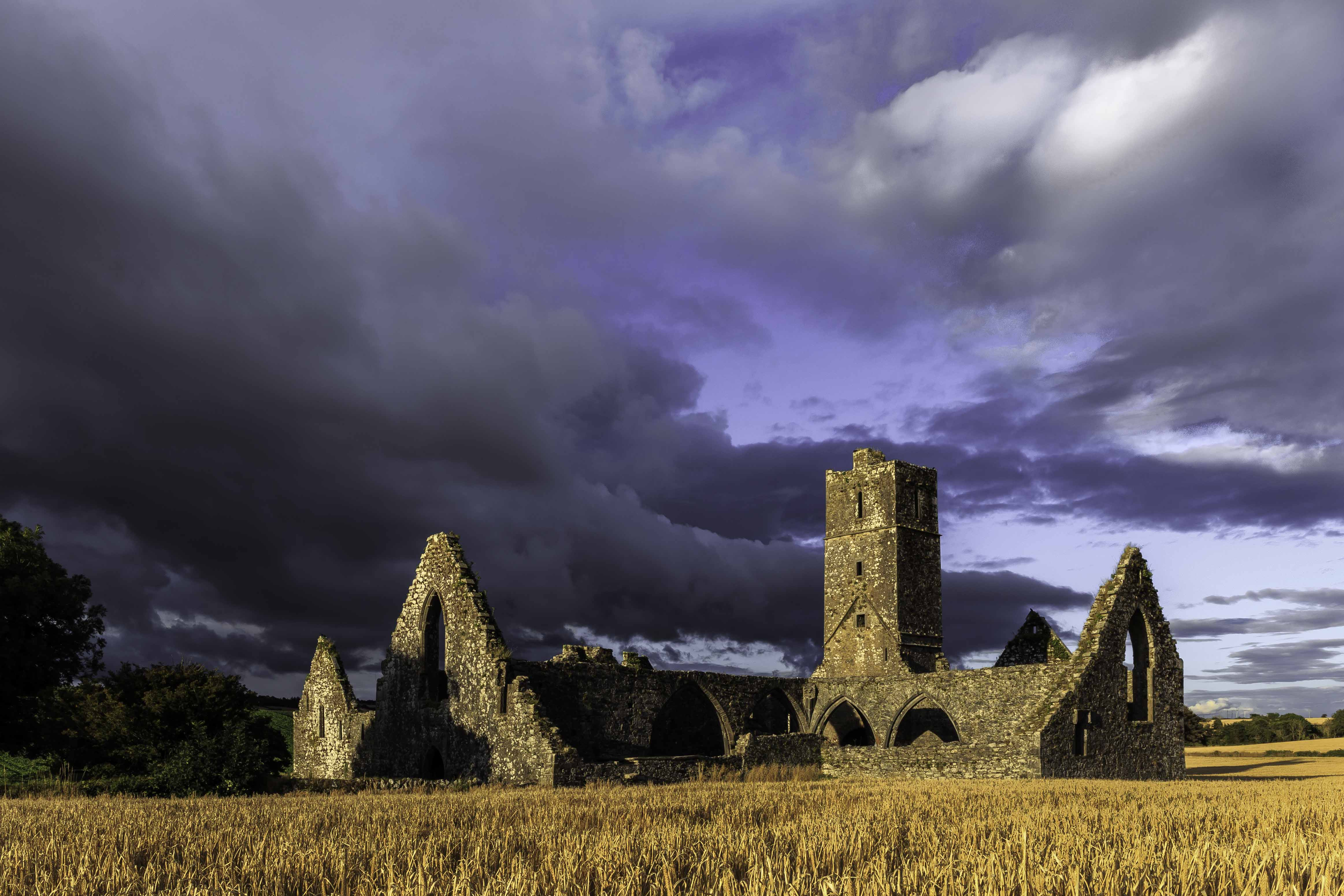 Kilcrea Abbey Friary, Ireland